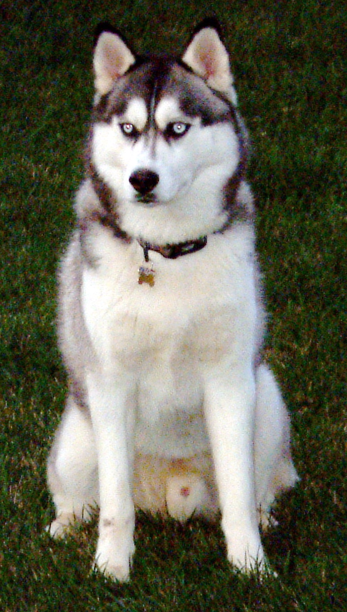 22 month old Siberian Husky male "Bela" in San Jose, California.